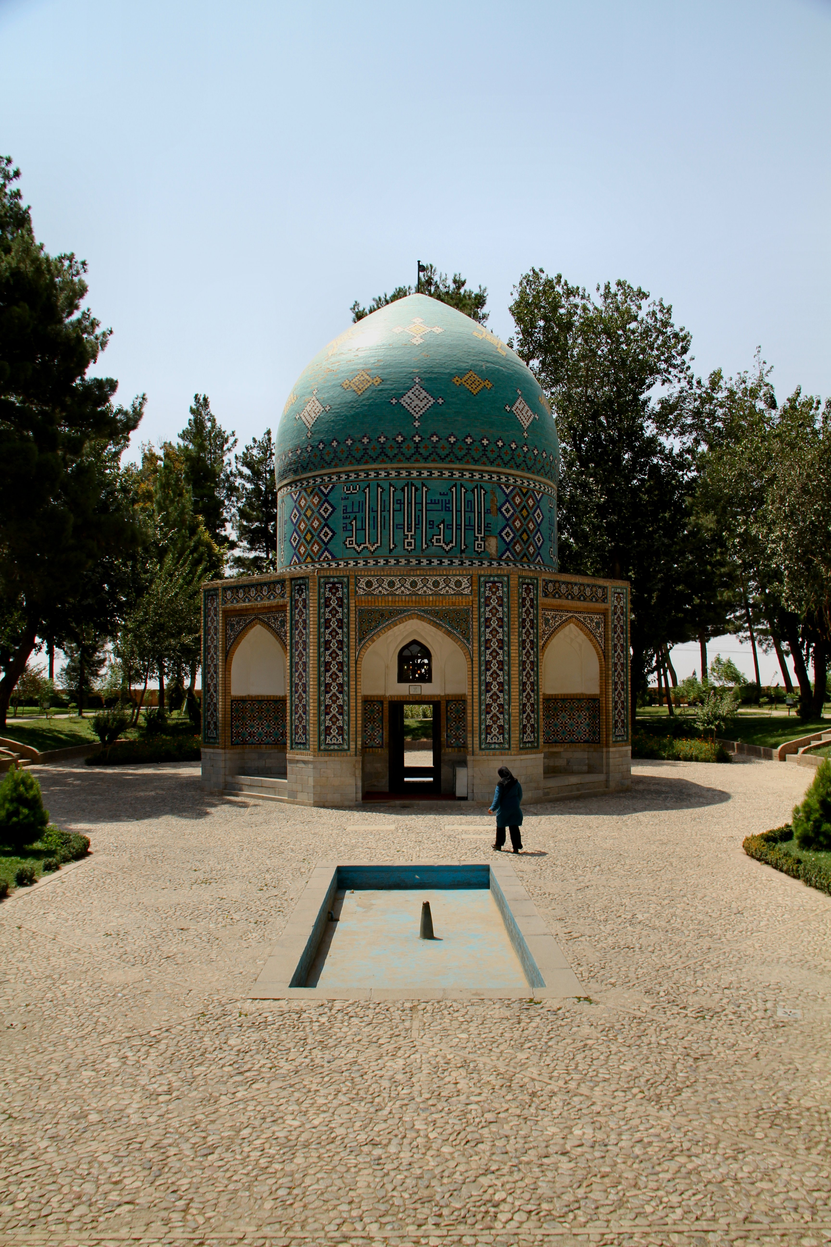 Attar_Mausoleum